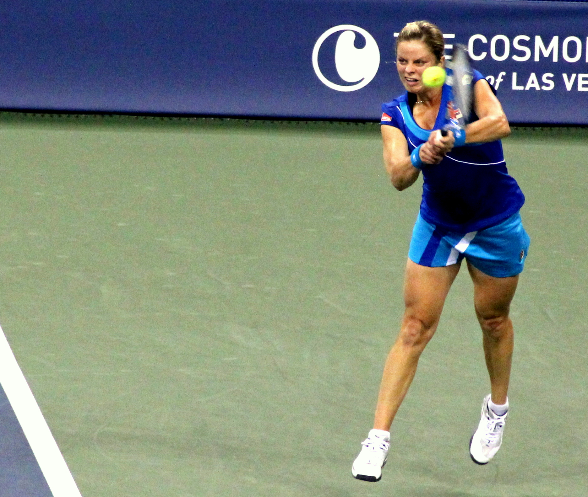 Clijsters vs. Stosur match on Tuesday night, 9/7 at the US Open. The Cosmopolitan is in New York for the 2010 US Open, inviting attendees and guests to experience signature views from our Overlook and in our custom designed suite with prime-stadium seating. For more information on The Cosmopolitan visit